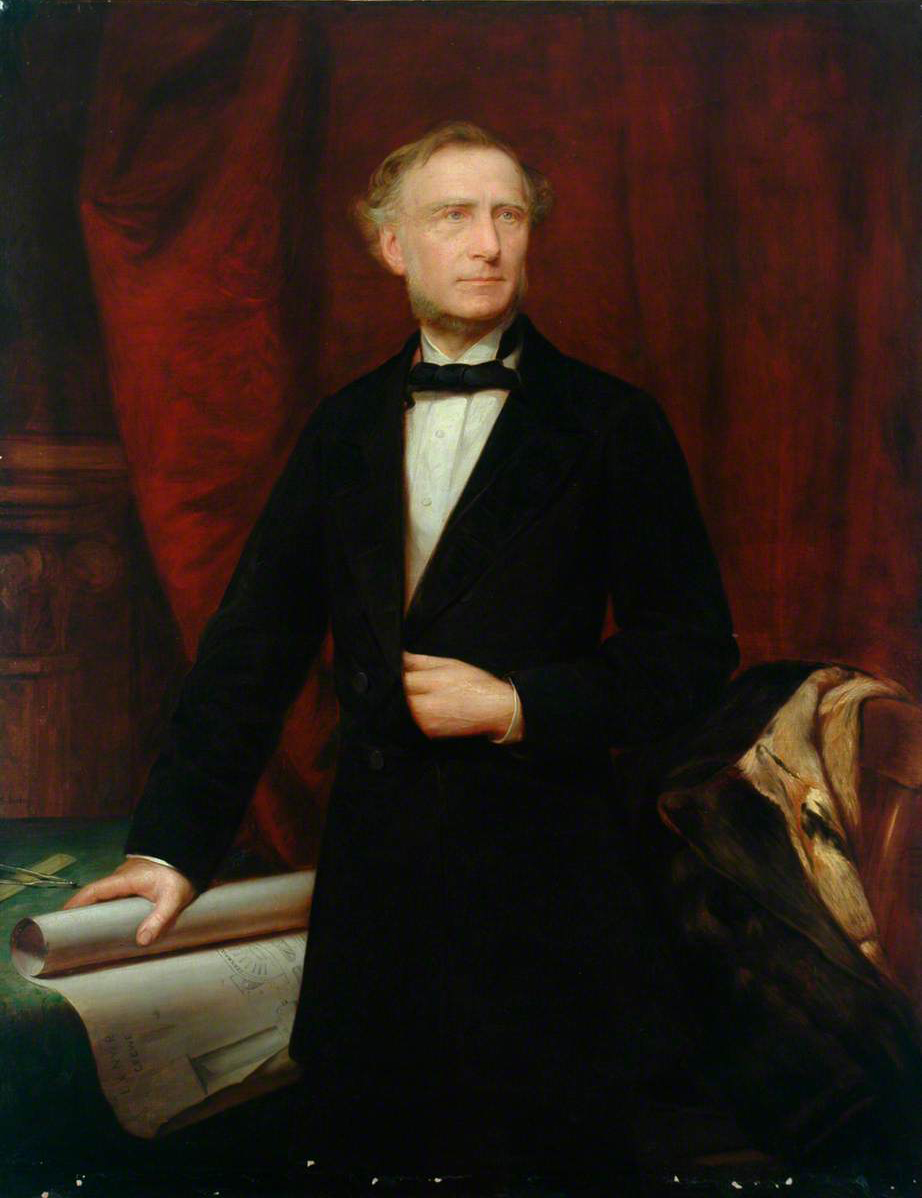 Photograph of a portrait of Francis Trevithick, engineer